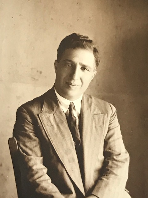 Photographic portrait of the Italian mathematician Giovanni Sansone (1888-1979) kept at the Mathematics Center of the Science Library of the University of Florence